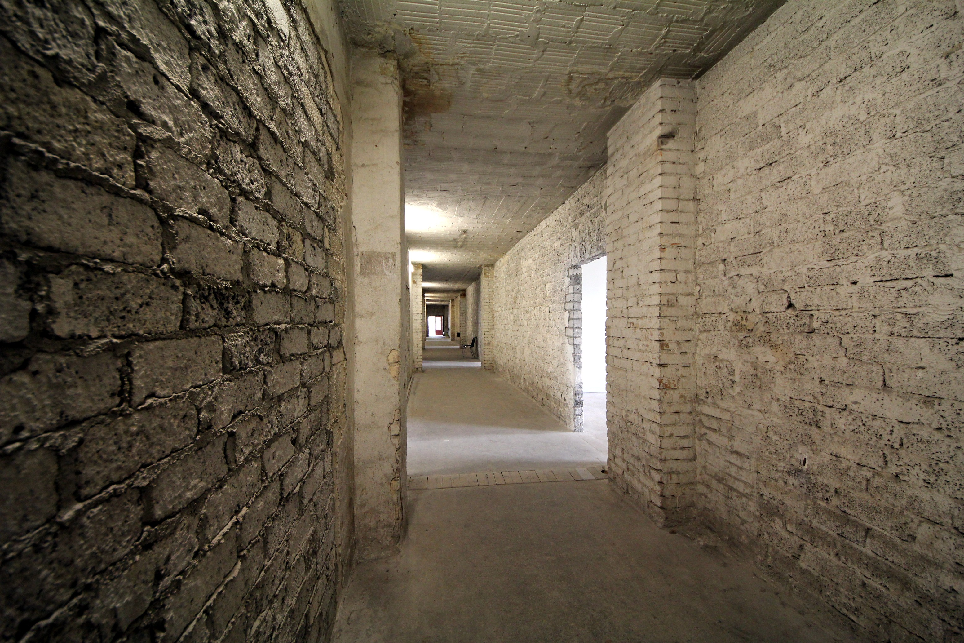 The Nazi Forced Labor Documentation Center, Barrack 13